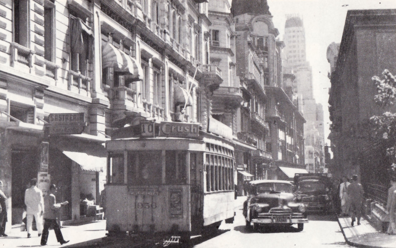 Tram and traffic on San Martín y Viamonte, downtown Buenos Aires. The Pontiac in the middle indicates that this photo was taken no earlier than 1947.